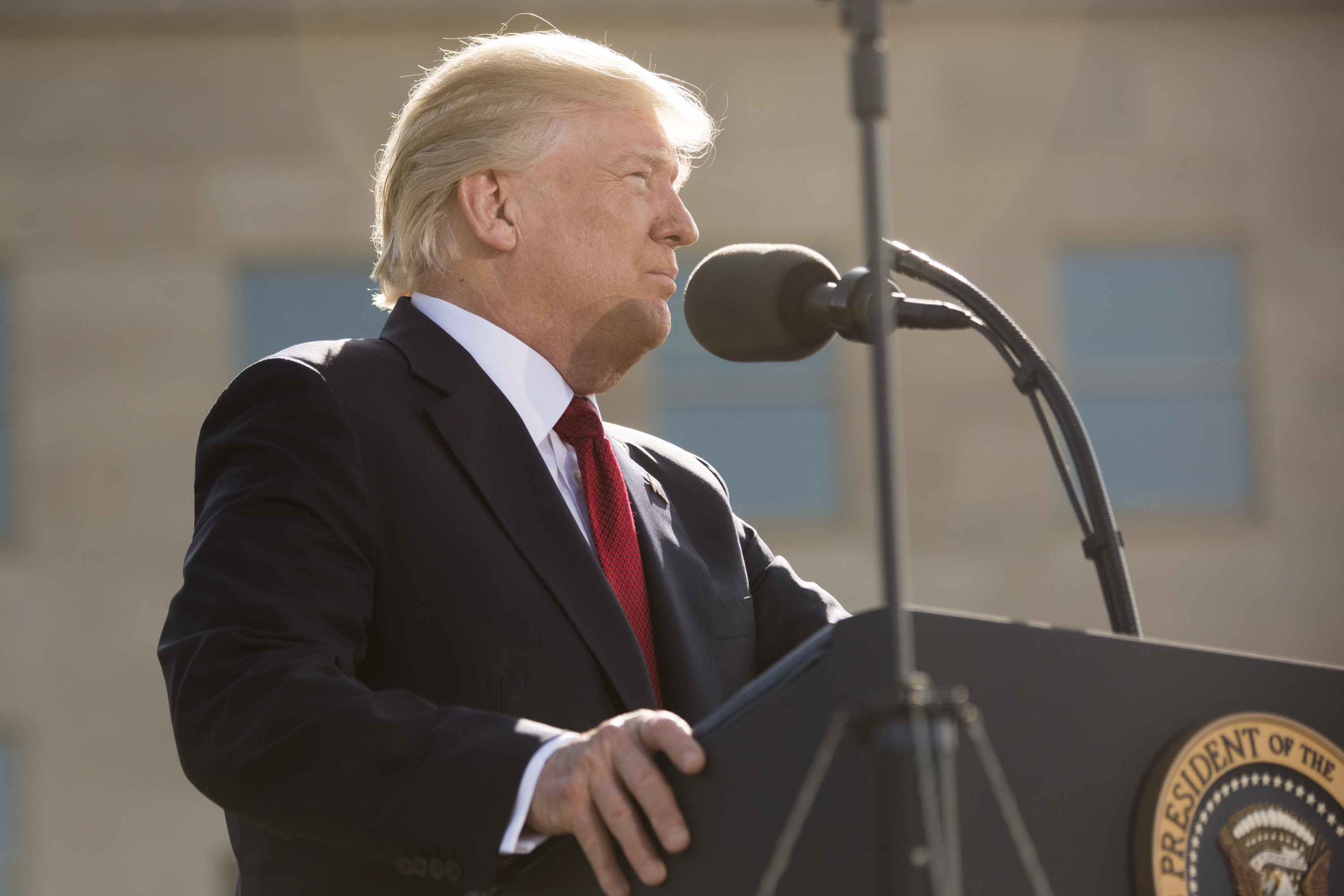 President Donald Trump speaks during the 9/11 Observance Ceremony at the Pentagon in Washington, D.C., Sept. 11, 2017. During the Sept. 11, 2001, attacks, 184 people were killed at the Pentagon. To the left is first lady Melania Trump, and to the right are Secretary of Defense Jim Mattis and Chairman of the Joint Chiefs of Staff Gen. Joseph Dunford. (DOD photo by Navy Petty Officer 1st Class Dominique A. Pineiro)